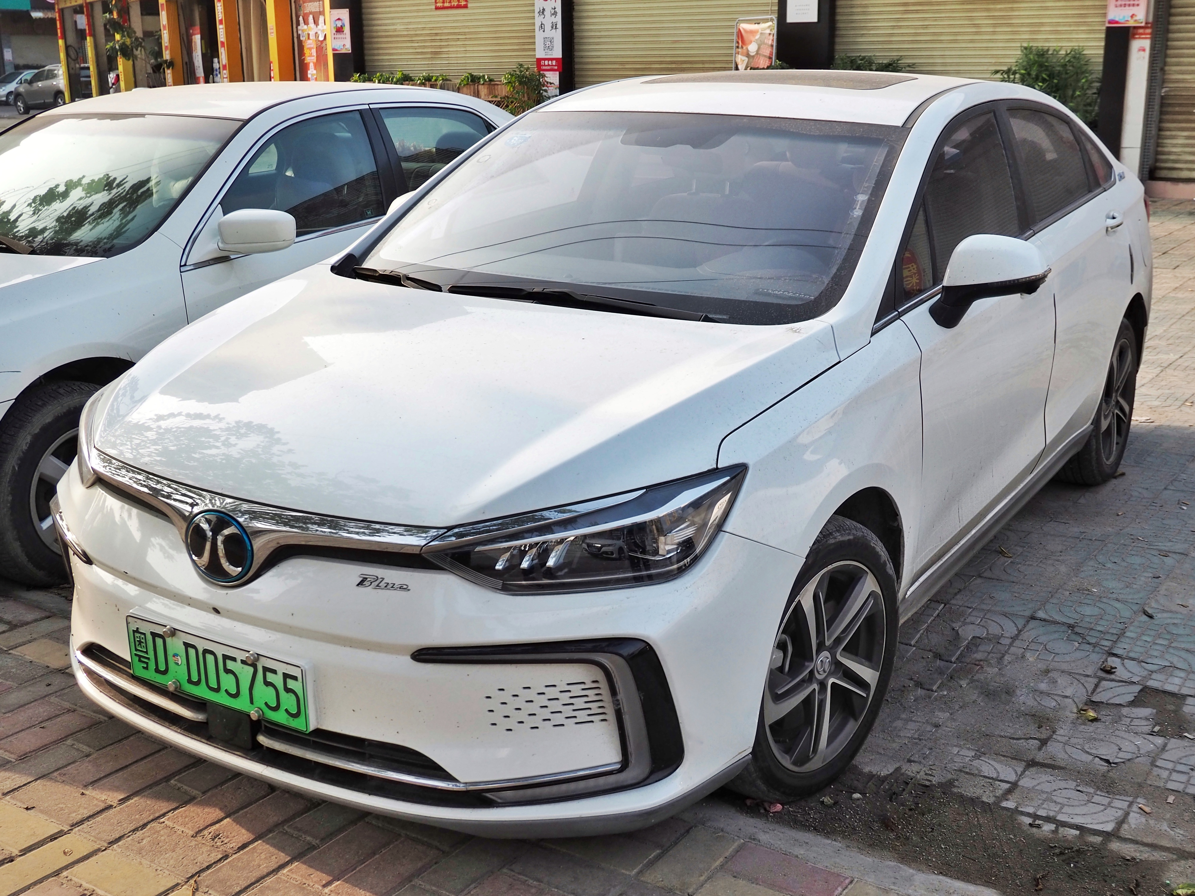 A 2018 BJEV EU5 photographed in Shantou, Guangdong Province, China. 中文（中国大陆）: 一辆2018年的北汽新能源EU5，拍摄于中国广东省汕头市。